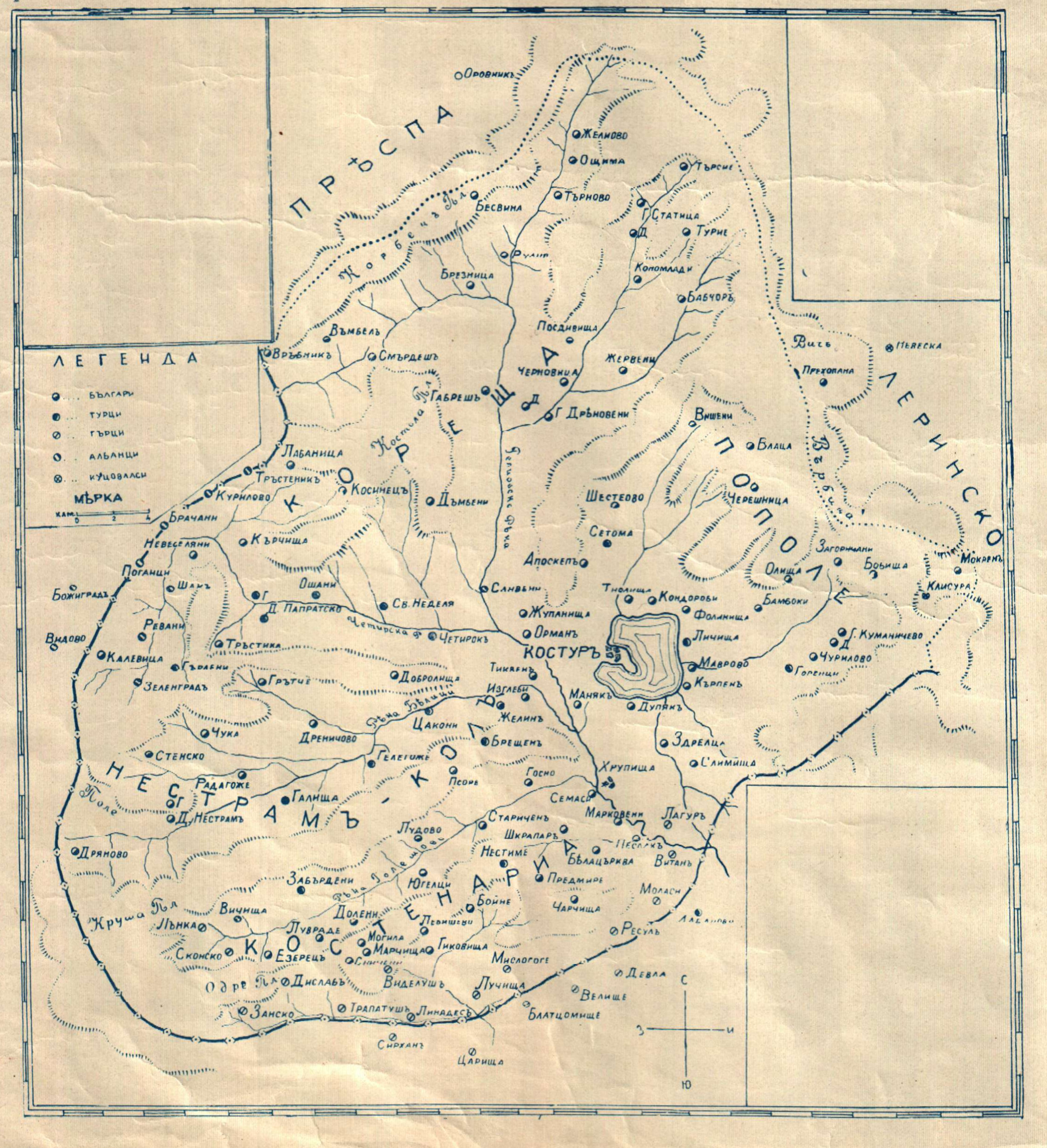 Kostur Map